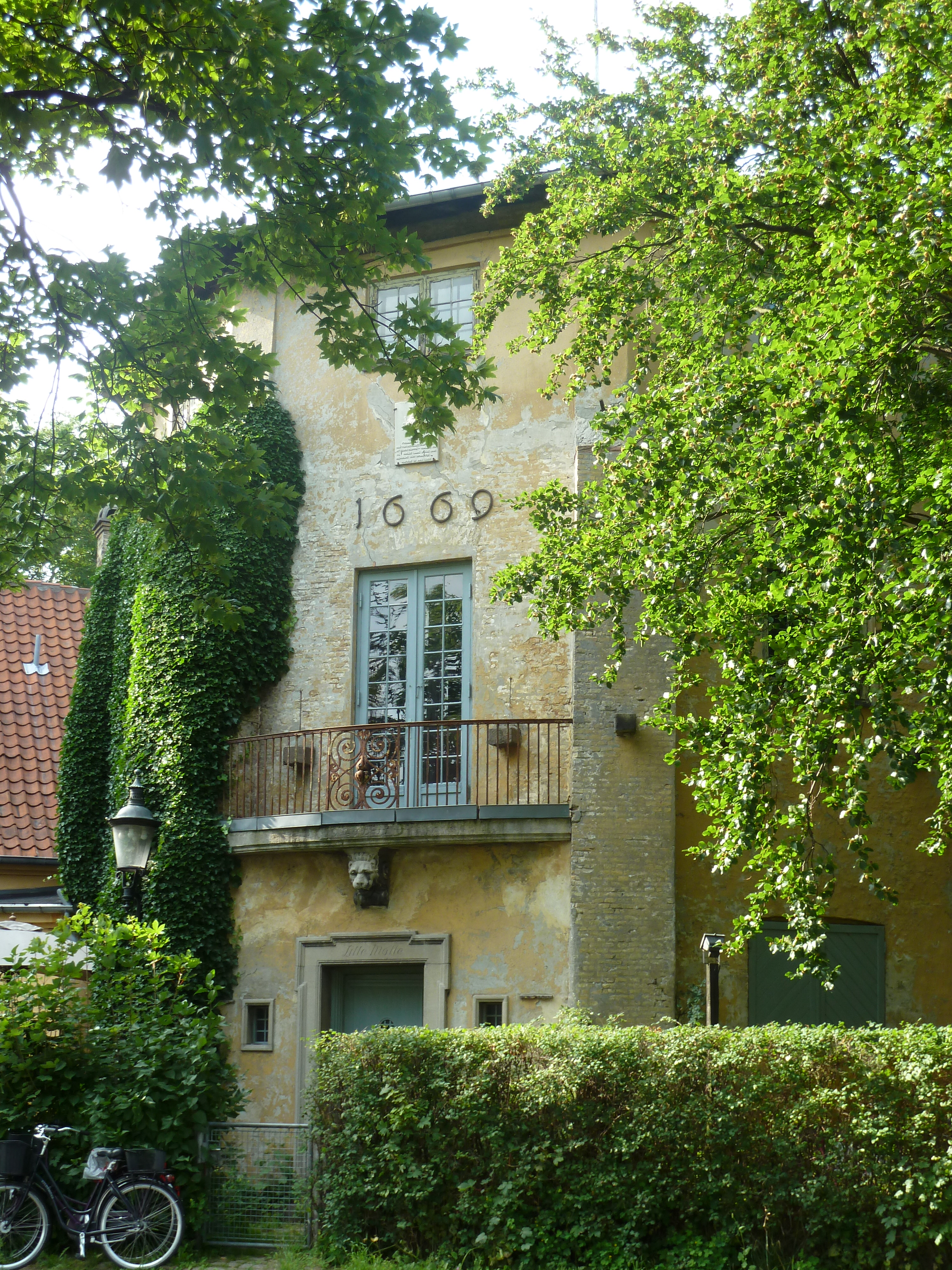 Lille Mølle (Little Mill) in the Christianshavn neighbourhood of Copenhagen, Denmark